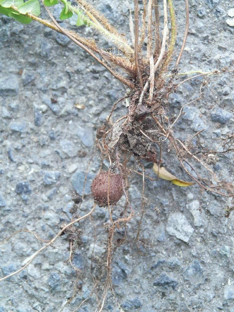 Nephrolepis cordifolia Japanese name:Tamasida：タマシダ Date;2009,08.22;Tanabe City, Wakayama prefecture, Japan Author;Keisotyo